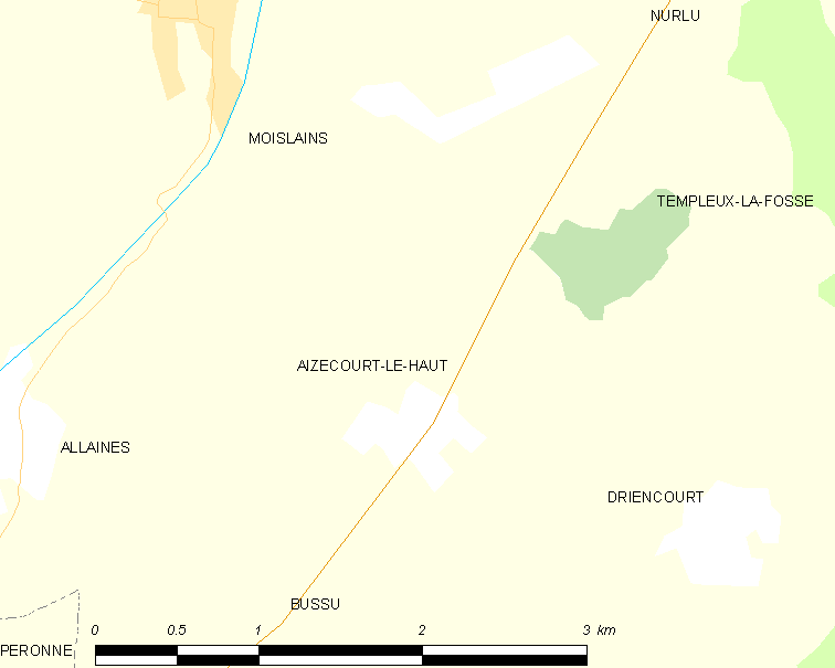 Map of French municipality Aizecourt-le-Haut